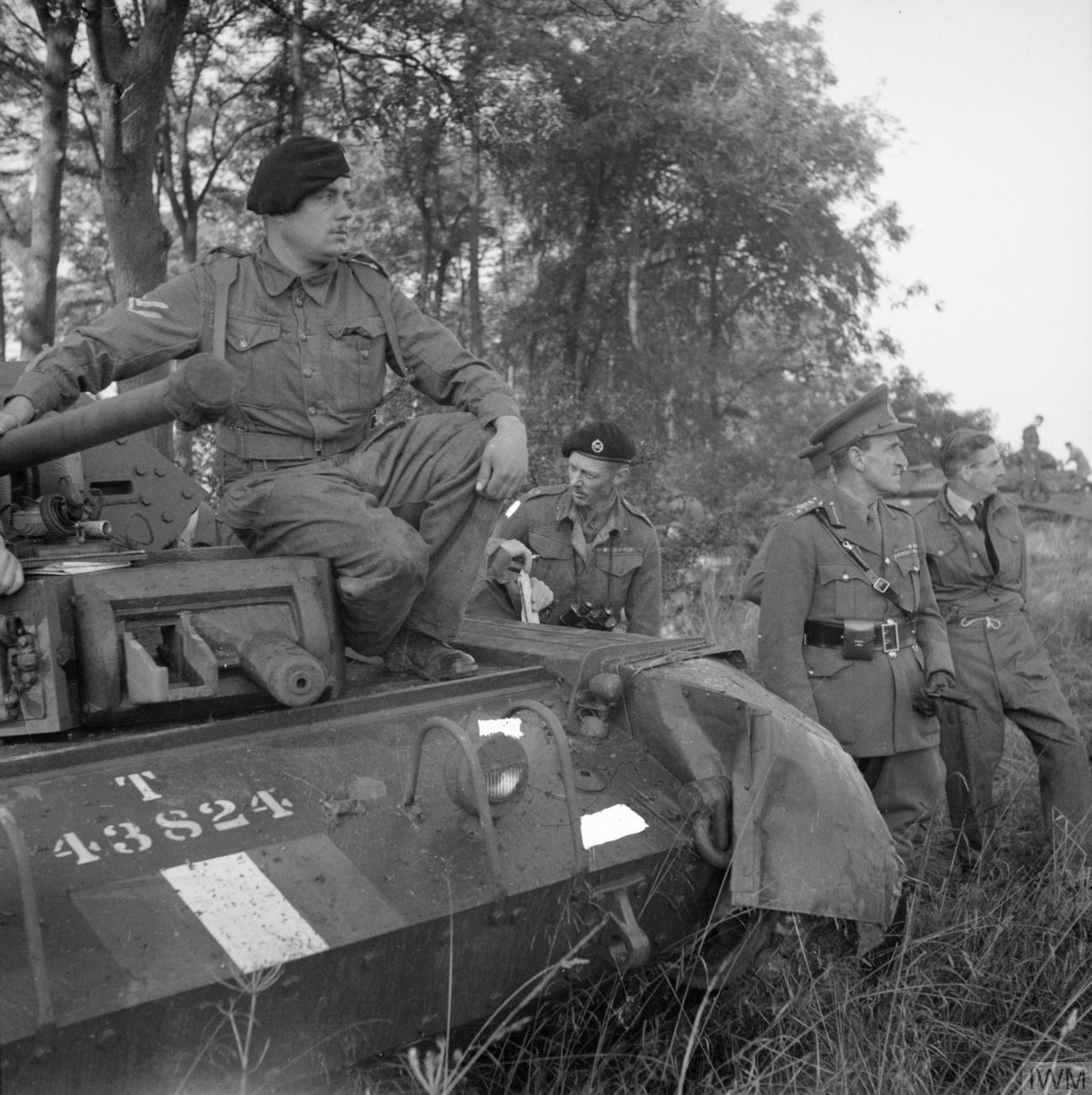 The British Army in the United Kingdom 1939-45 General Sir Bernard Paget (C-in-C Home Forces) and Anthony Eden, Foreign Secretary, watch an exercise involving 42nd Armoured Division near Malton in Yorkshire, 29 September 1942. The tank in the foreground is a Crusader.